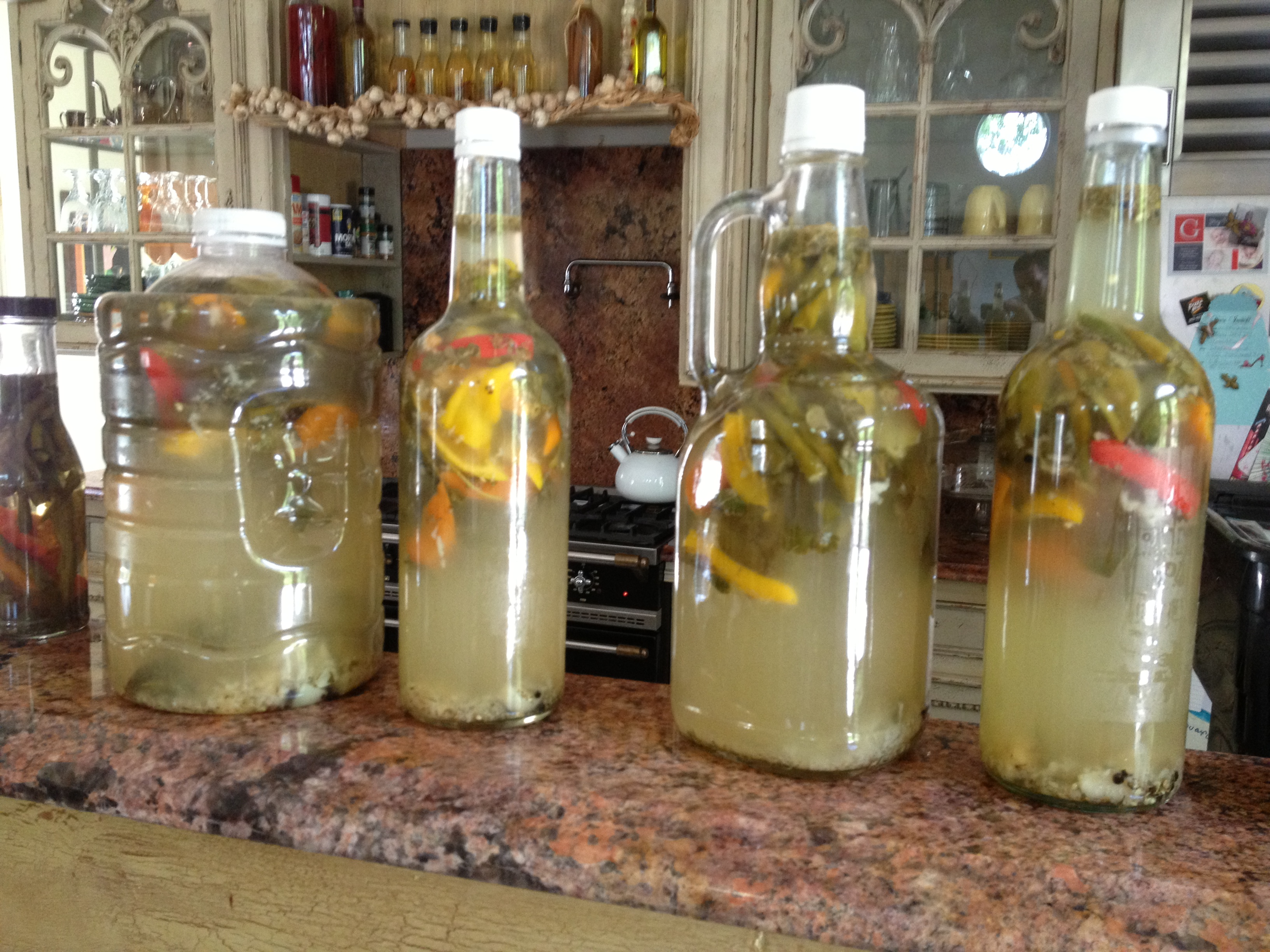 authentic Puerto Rican fermenting pique sauce